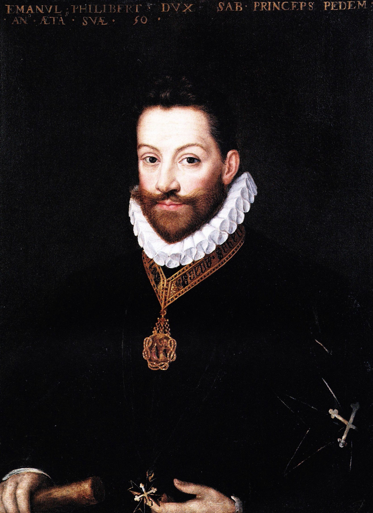 Portrait of the Prince of Piedmont Emanuele Filiberto of Savoy said the " Iron Head " .to age of fifty, 1579